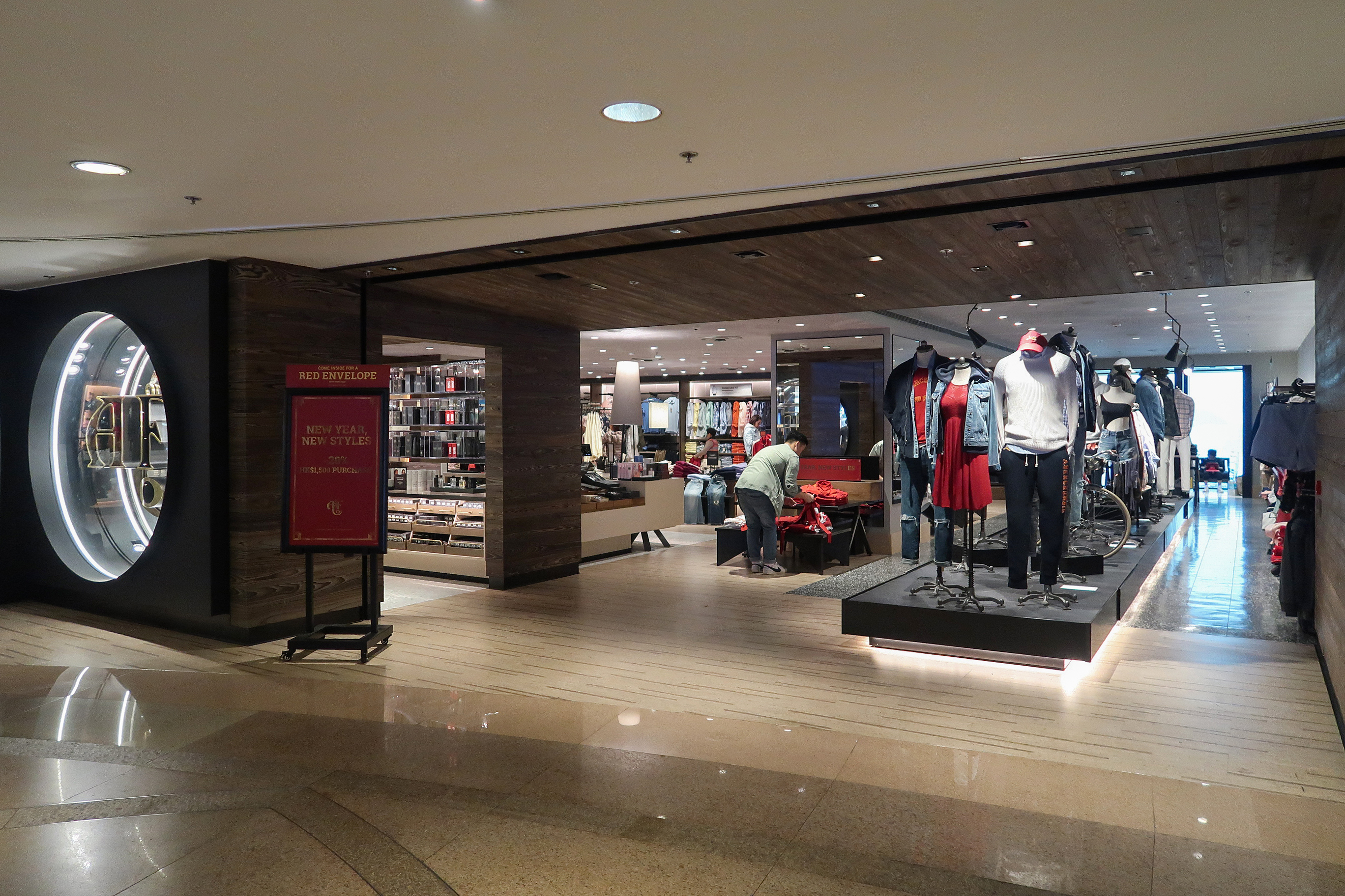 Abercrombie & Fitch in Harbour City